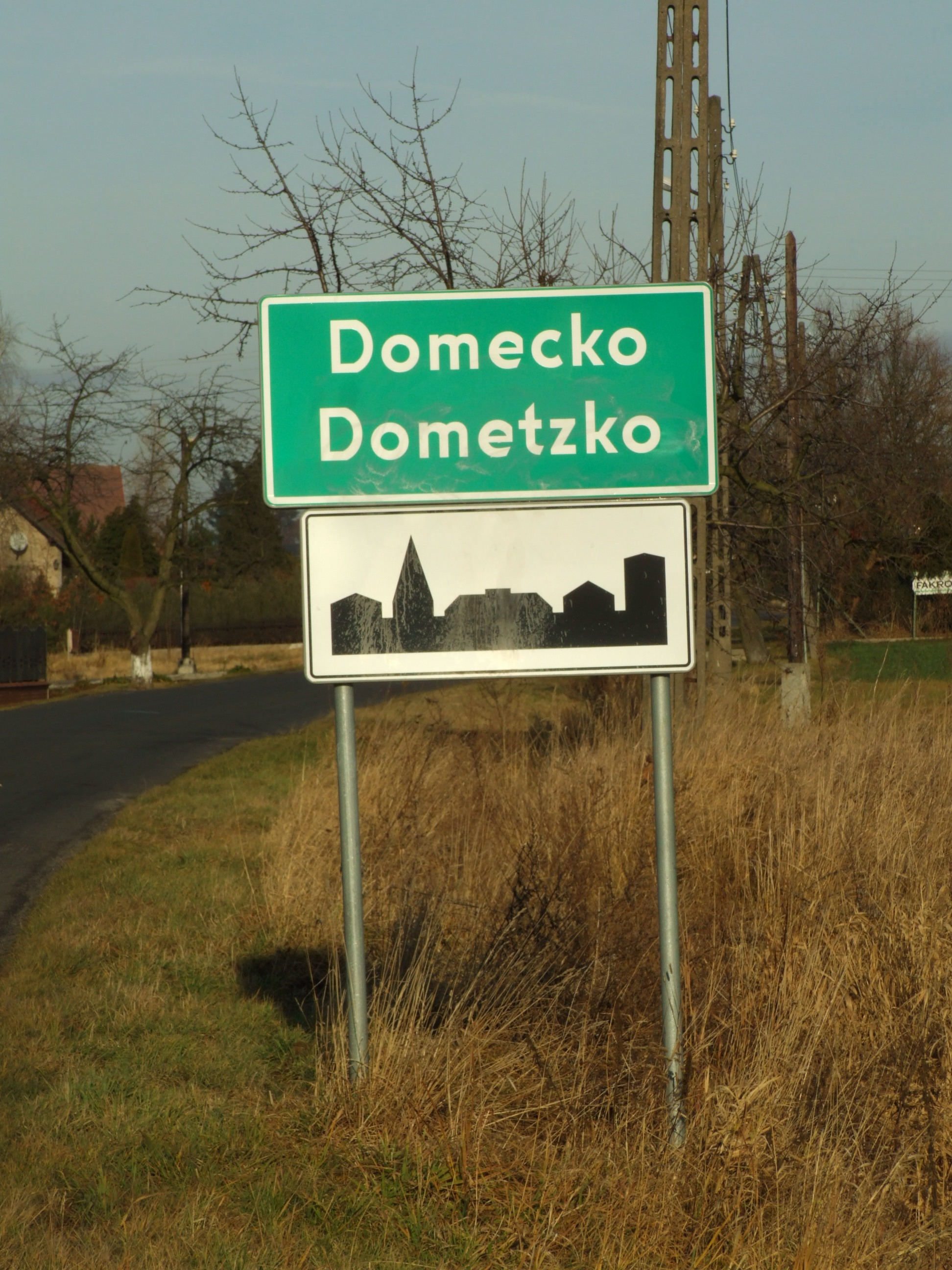 Bilingual polish-german village boundary Domecko/Dometzko, Upper Silesia